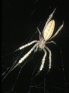 female Larinia fusiformis from Okinawa.